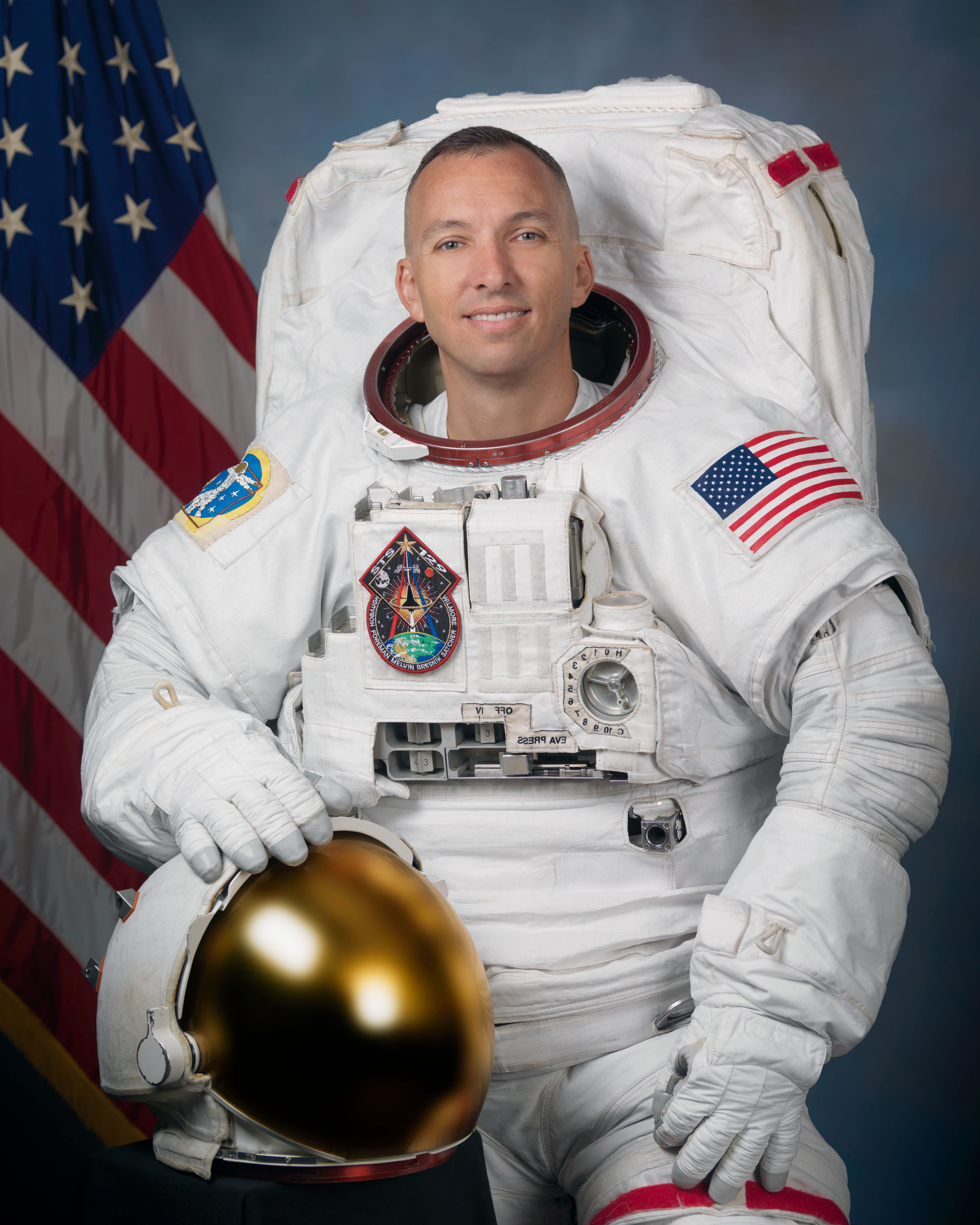 Astronaut Randolph J. (Randy) Bresnik, mission specialist